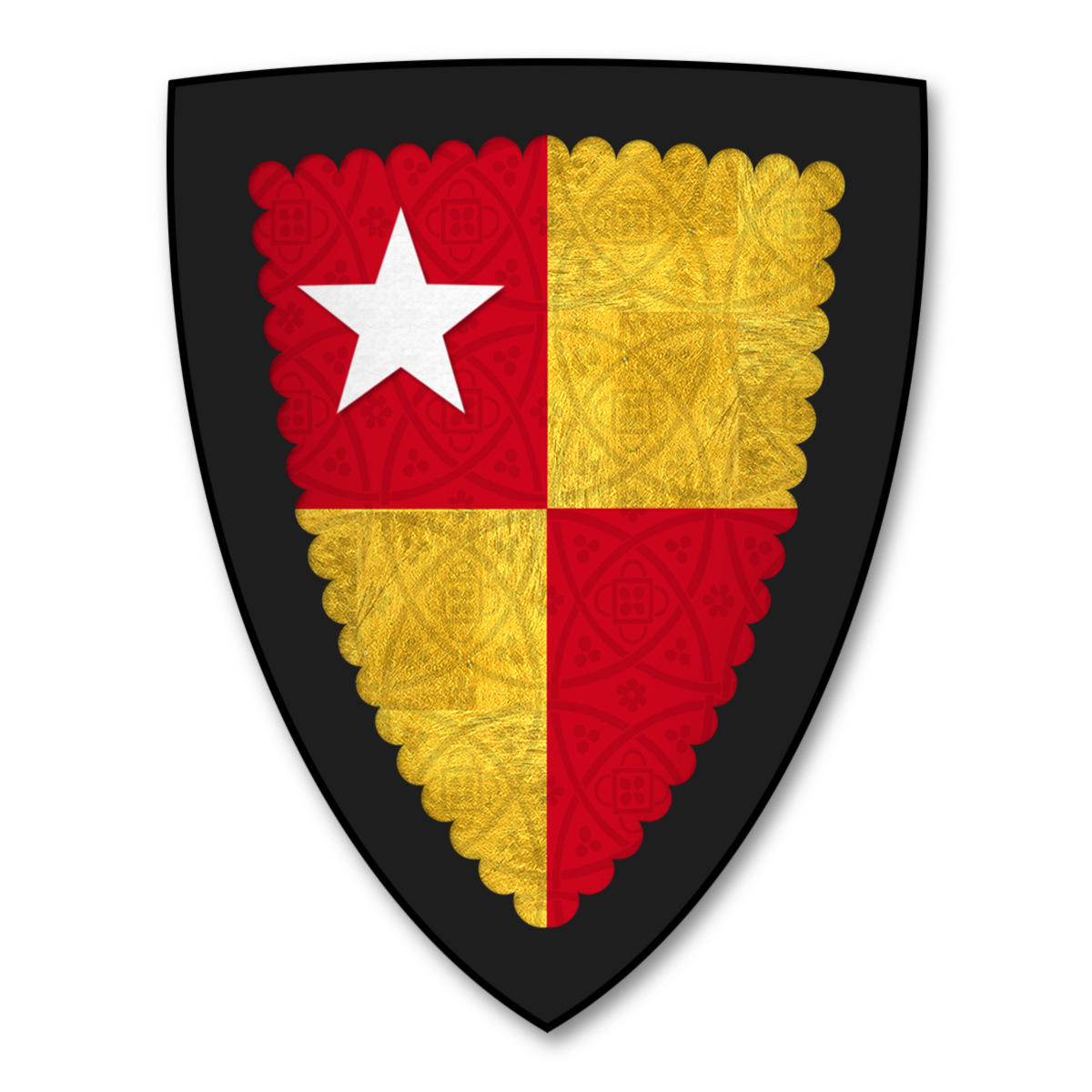 Arms: Quarterly gules and Or, in canton a mullet argent, a bordure engrailed sable. Coat of arms of Hugh de Vere, as blazoned in the Caerlaverock Poem (K-037: "Huë de Ver") "O le ourle endentee de noir Avoit baniere e longe e lee De ore e de rouge esquartelee, De bon cendal non pas de toyle, E devant une blanche estoyle." (Note: the stanza gives the De Vere quarters reveresed (Or and Gules). This is how the coat of arms is in fact shown in the Camden Roll of c. 1280. As this would place the white start on a gold field, according to Wagnor on p. 105 of Aspilogia II, most early sources reversed the order in this blazon due to a preference of the heralds to naming a metal before a tincture in any evenly divided field.)